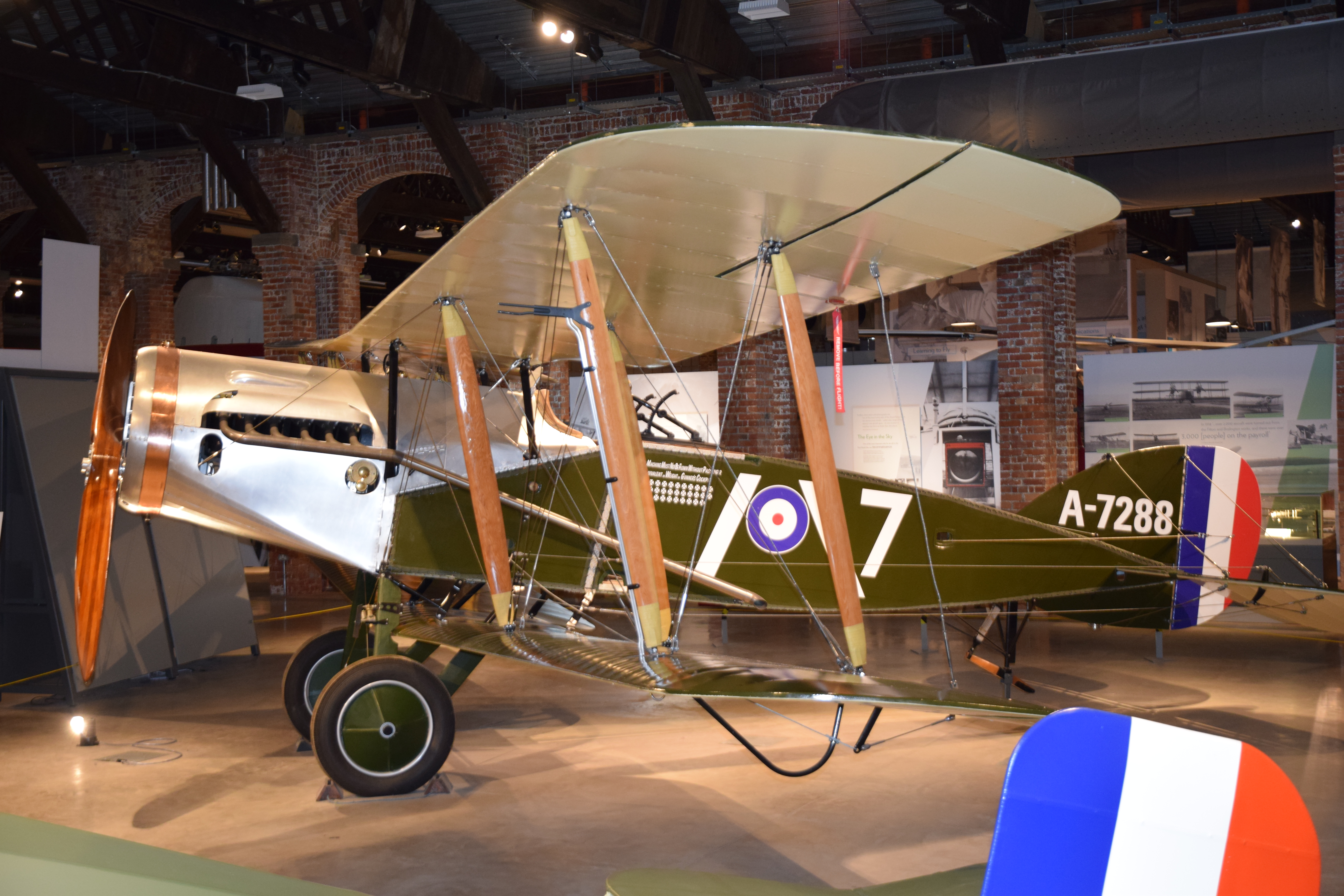 Bristol F.2B Fighter at Aerospace Bristol, Filton, 20 June 2018. Probably the best two-seat fighter and reconnaissance aircraft produced in WWII by any of the belligerents.